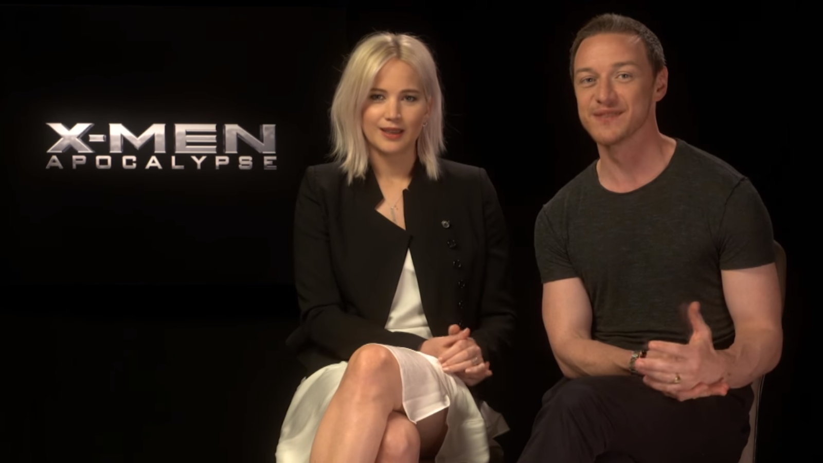 Jennifer Lawrence and James McAvoy for a X-Men Apocalypse Shot Out